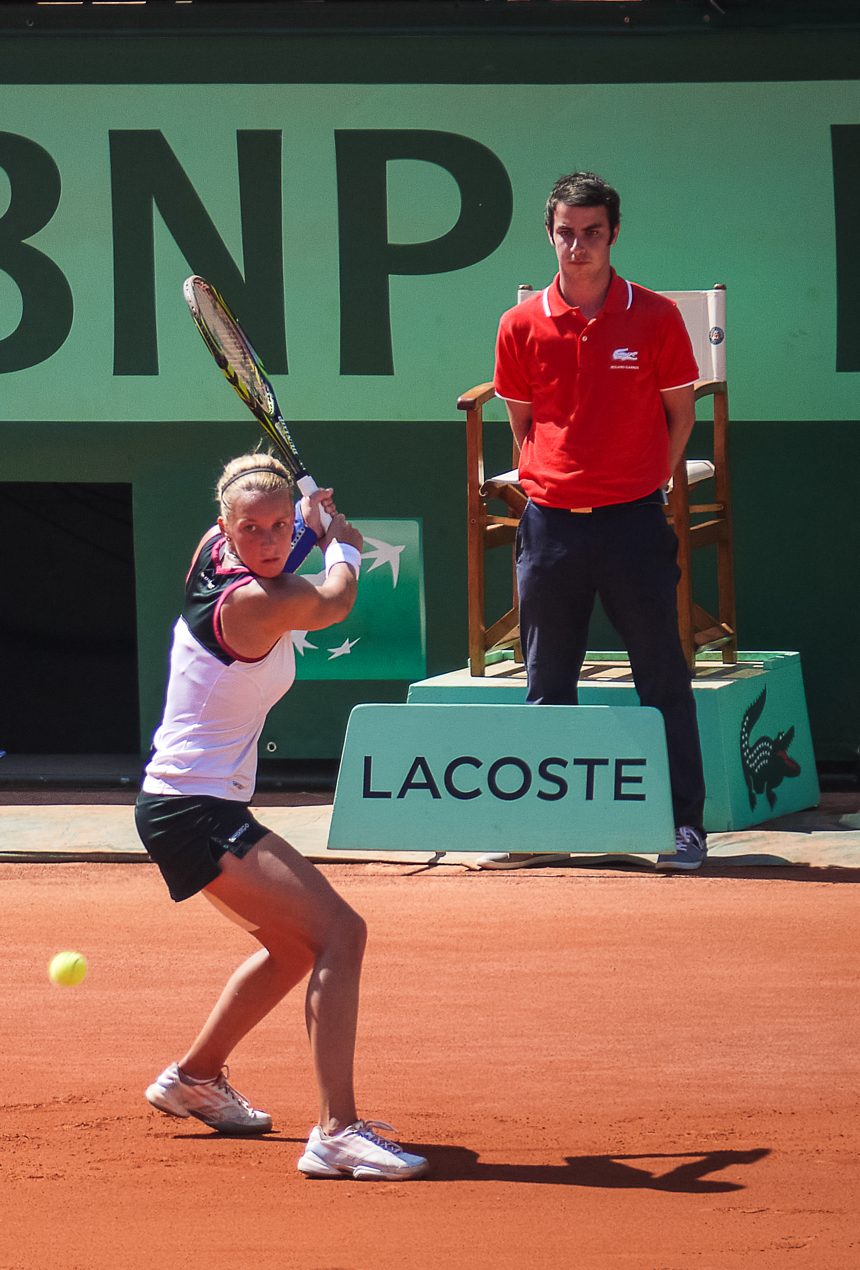 2ème tour Roland Garros 2012 : Victoria Azarenka (BLR) def. Dinah Pfizenmaier (GER)